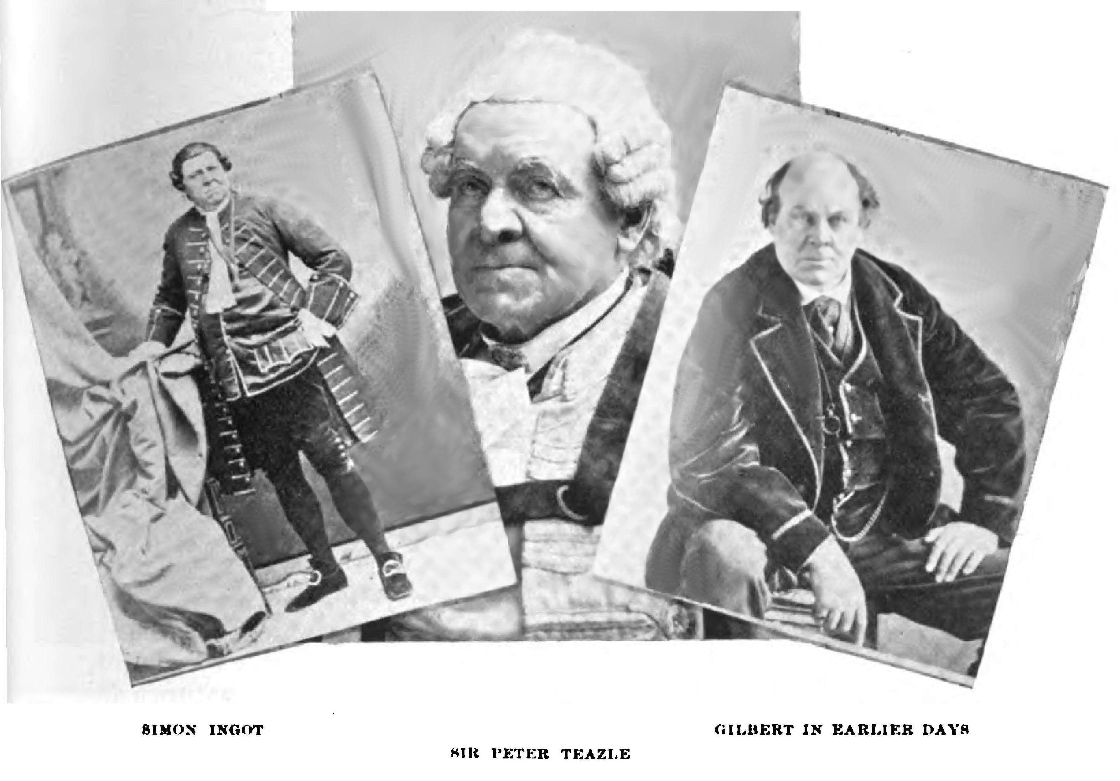 John Gibbs Gilbert (February 27, 1810 – June 17, 1889) was an American stage actor whose real name was Gibbs.